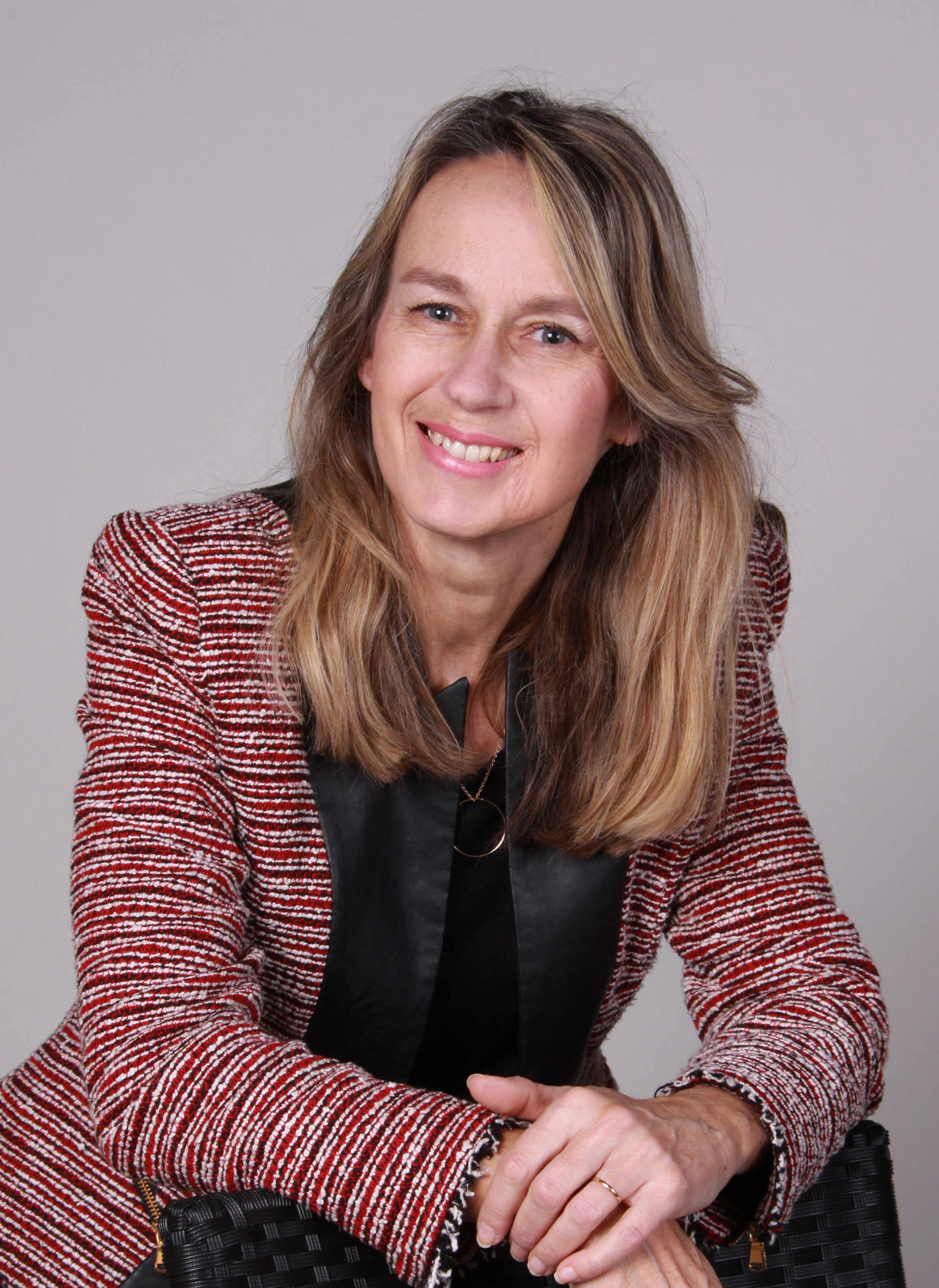 Constance Grip, Member of the European Parliament